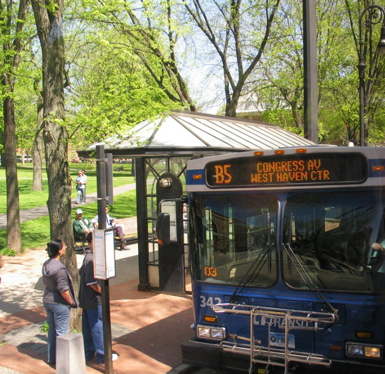 The front of a CT Transit New Flyer D40LF